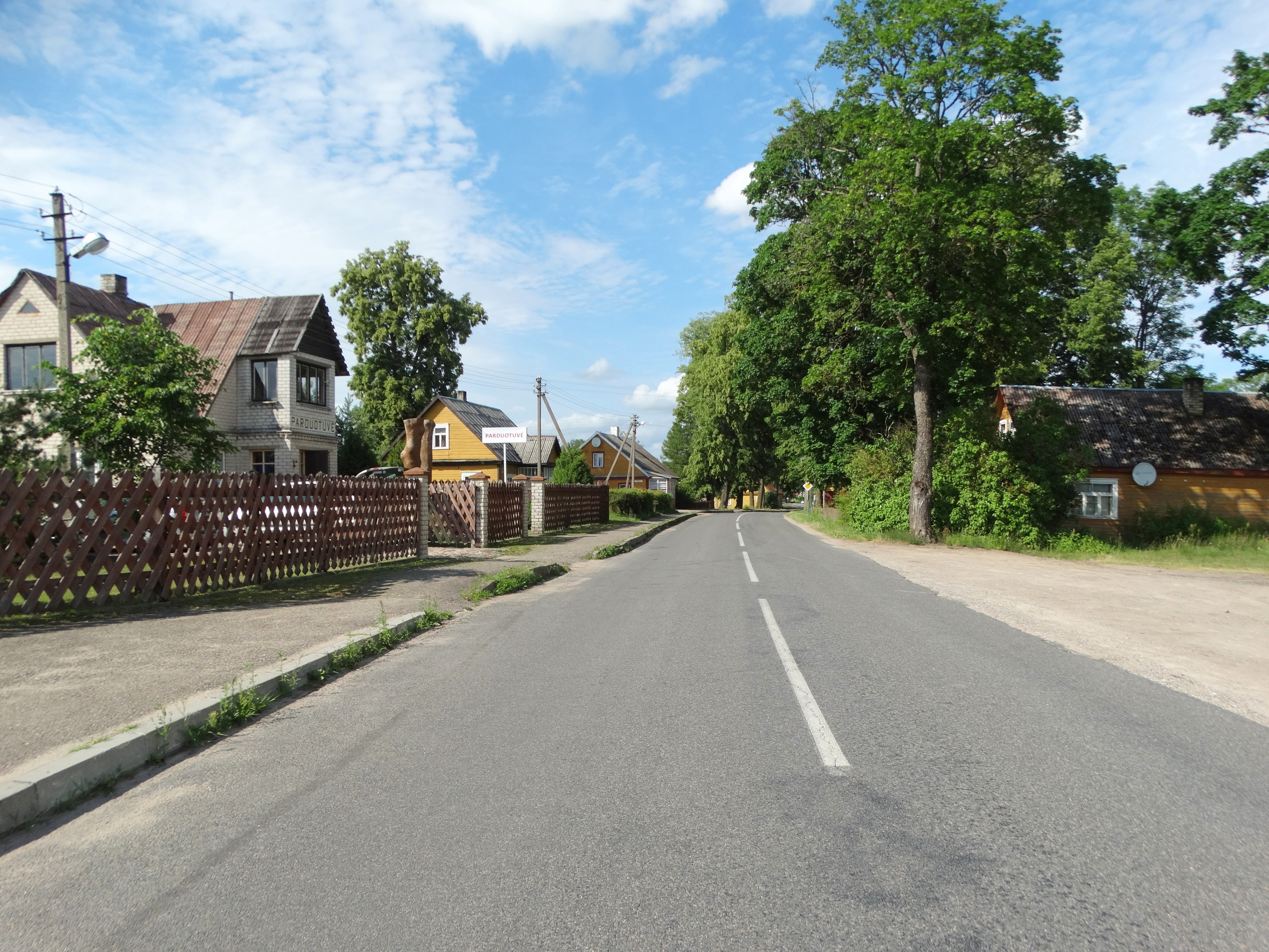 Andrioniškis, Anykščiai district, Lithuania